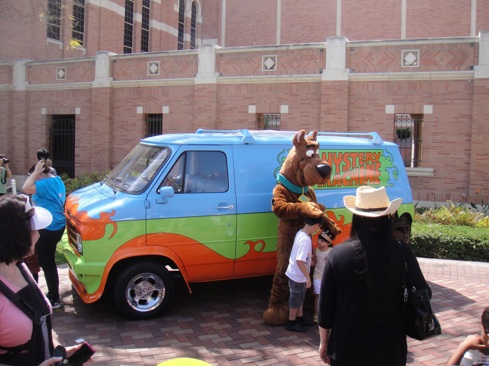 photo 2012 Pop Culture Geek taken by Doug Kline If you're interested in higher resolution versions of my images, contact me via my profile page.